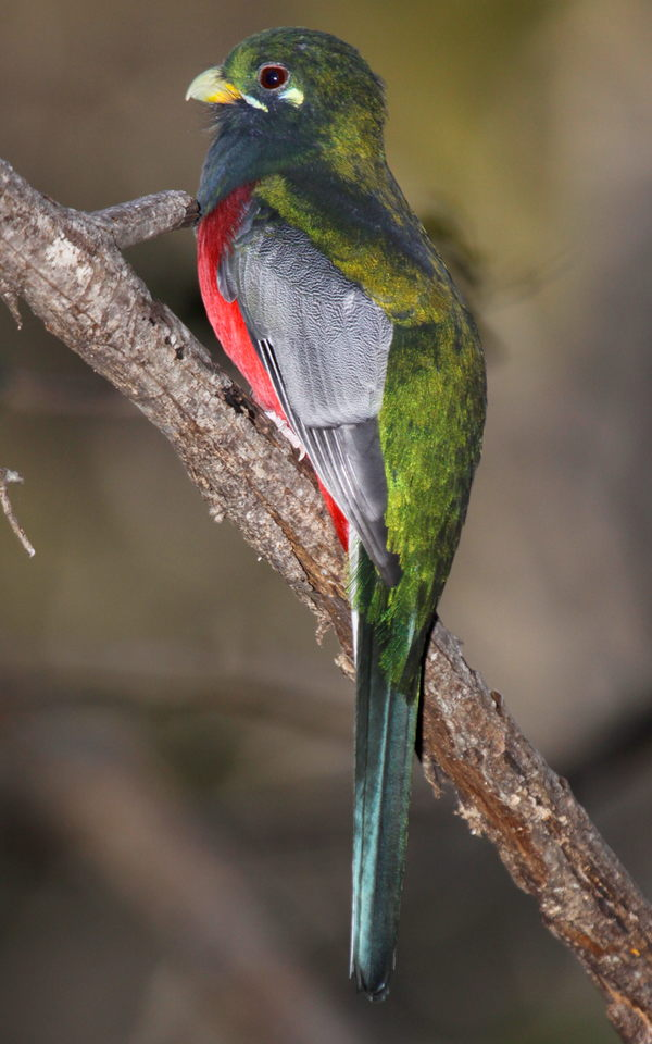 Narina Trogon, Apaloderma narina MALE at Lekgalameetse Provincial Reserve, Limpopo, South Africa